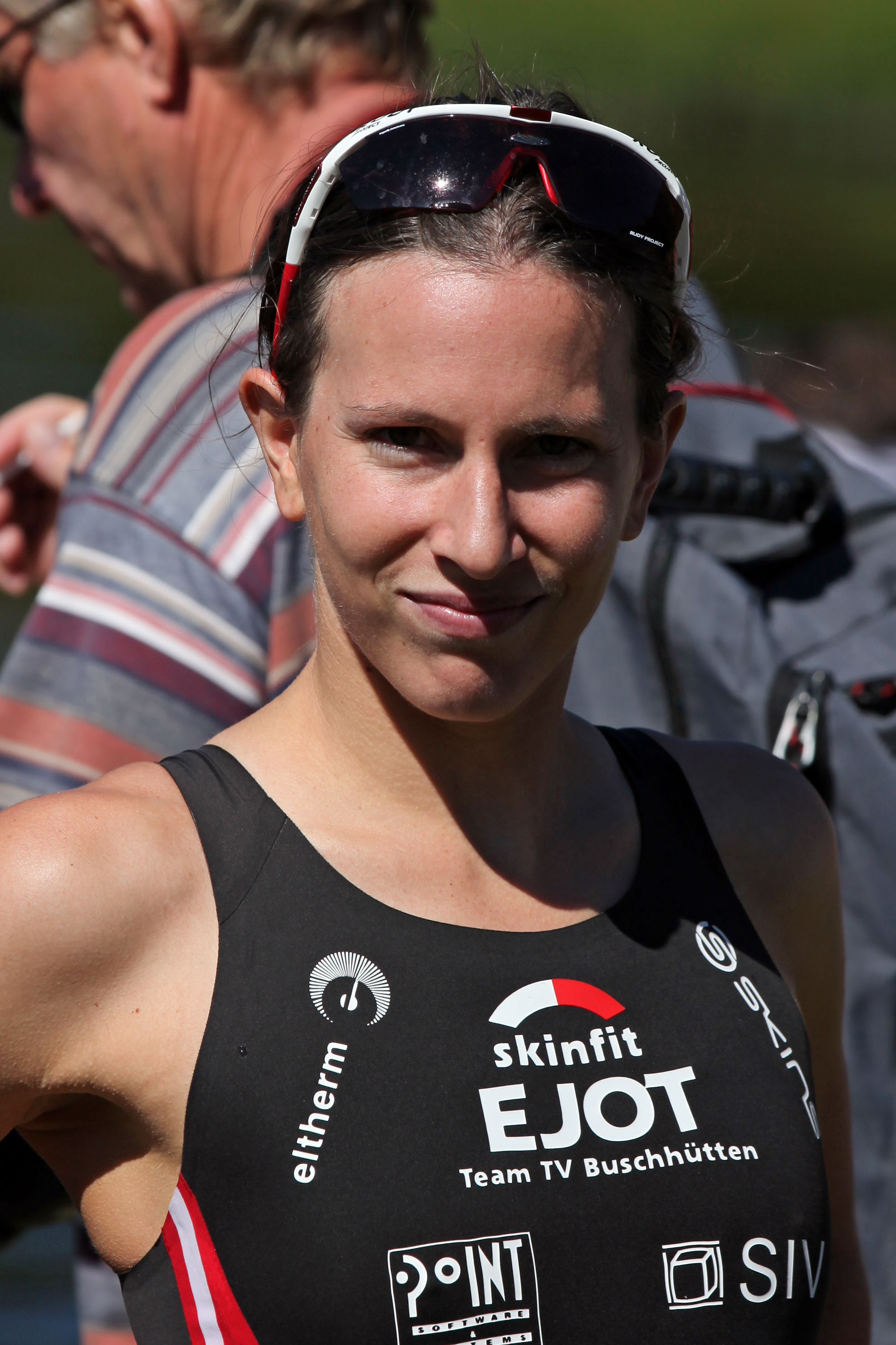 Radka Vodickova at the Schliersee triathlon, the Grand Final of the German Bundesliga.